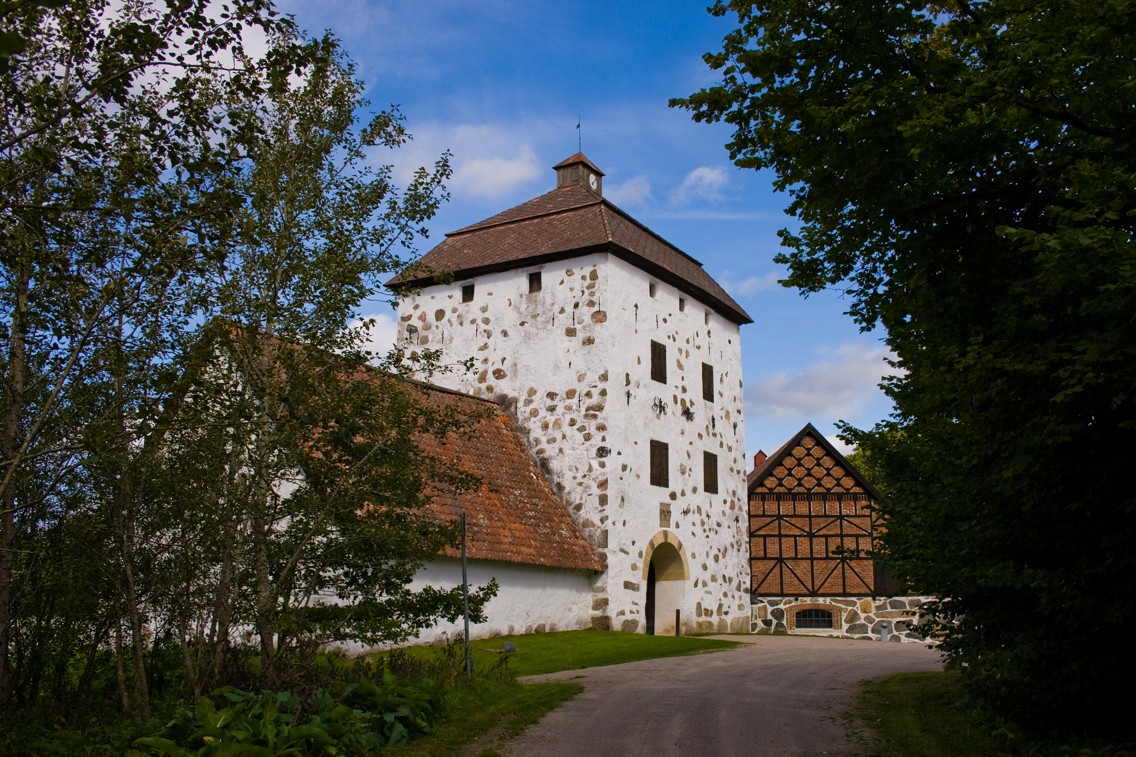 Hovdala Castle, ca. 7 km south of Hässleholm, Sweden.